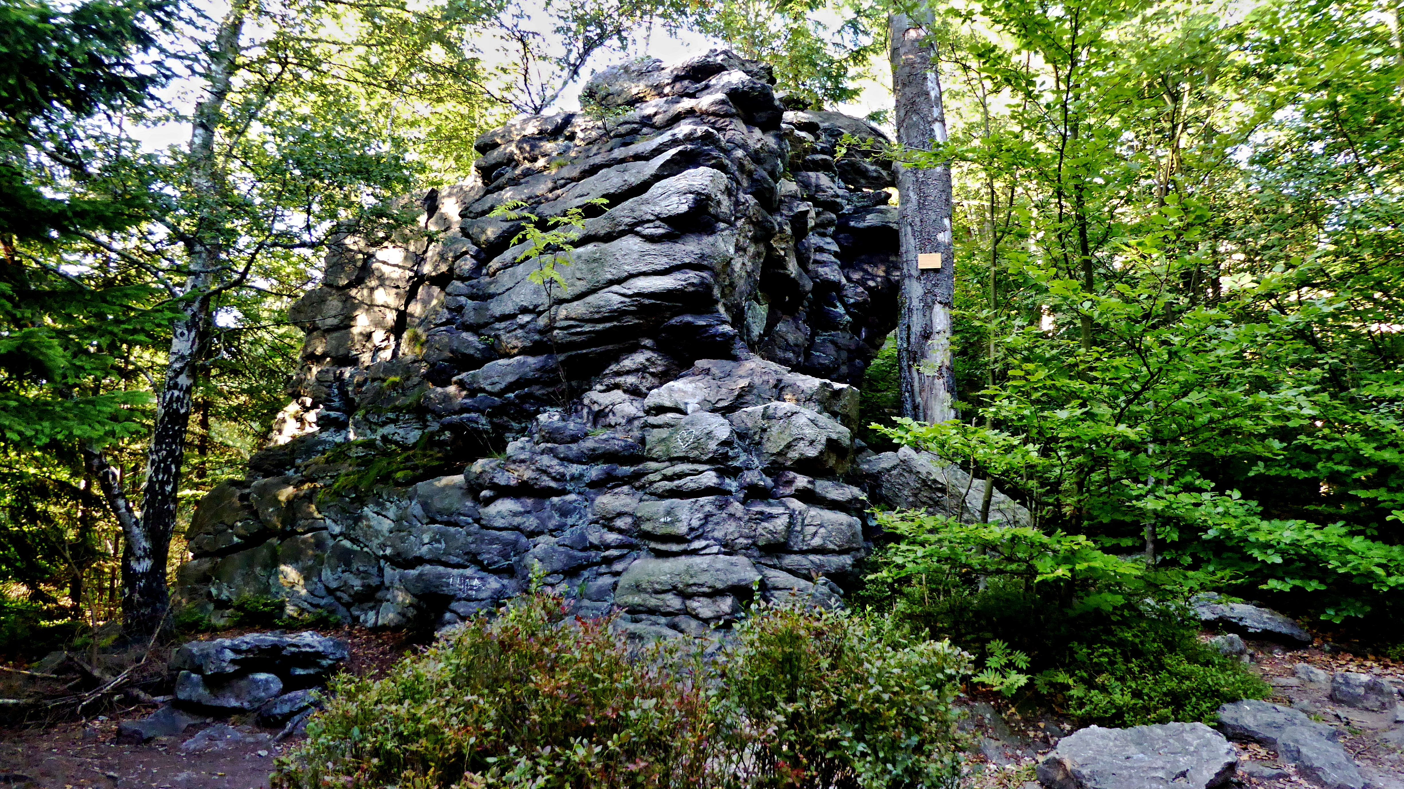 "Pasecká" rock is the geographical name of the rock formation (geological locality), the natural monument and the significant elevation point of "Pohledeckoskalská" Highlands in the landscape area "Žďárské" Hills in the northwest of the geomorphological whole "Hornosvratecká" Highlands. In the top part, three blocks of rocks with names "Omšelý" ridge, "Pernštejn" and Viewpoint (height point 819 meters above sea level). Photo-location: Czechia, "Vysočina" Region, village "Studnice" (part of town "Nové Město na Moravě), "Pohledeckoskalská" Highlands, "Pasecká" rock, view of the rock from the hiking route.